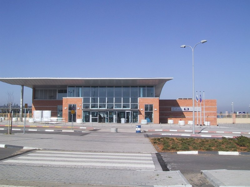 Rosh Hahyin Railway Station